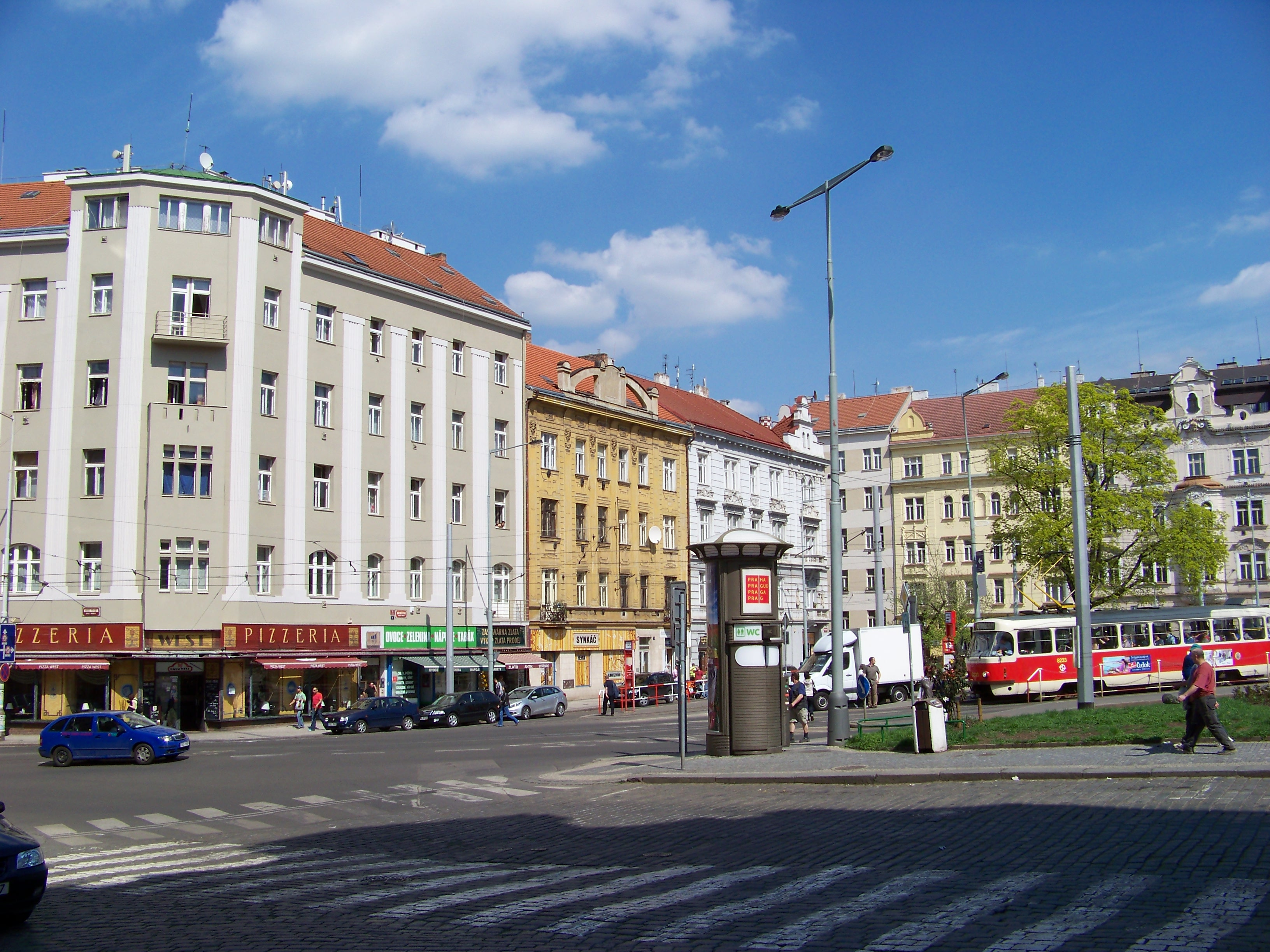 Prague-Nusle, the Czech Republic. Náměstí Bratří Synků.